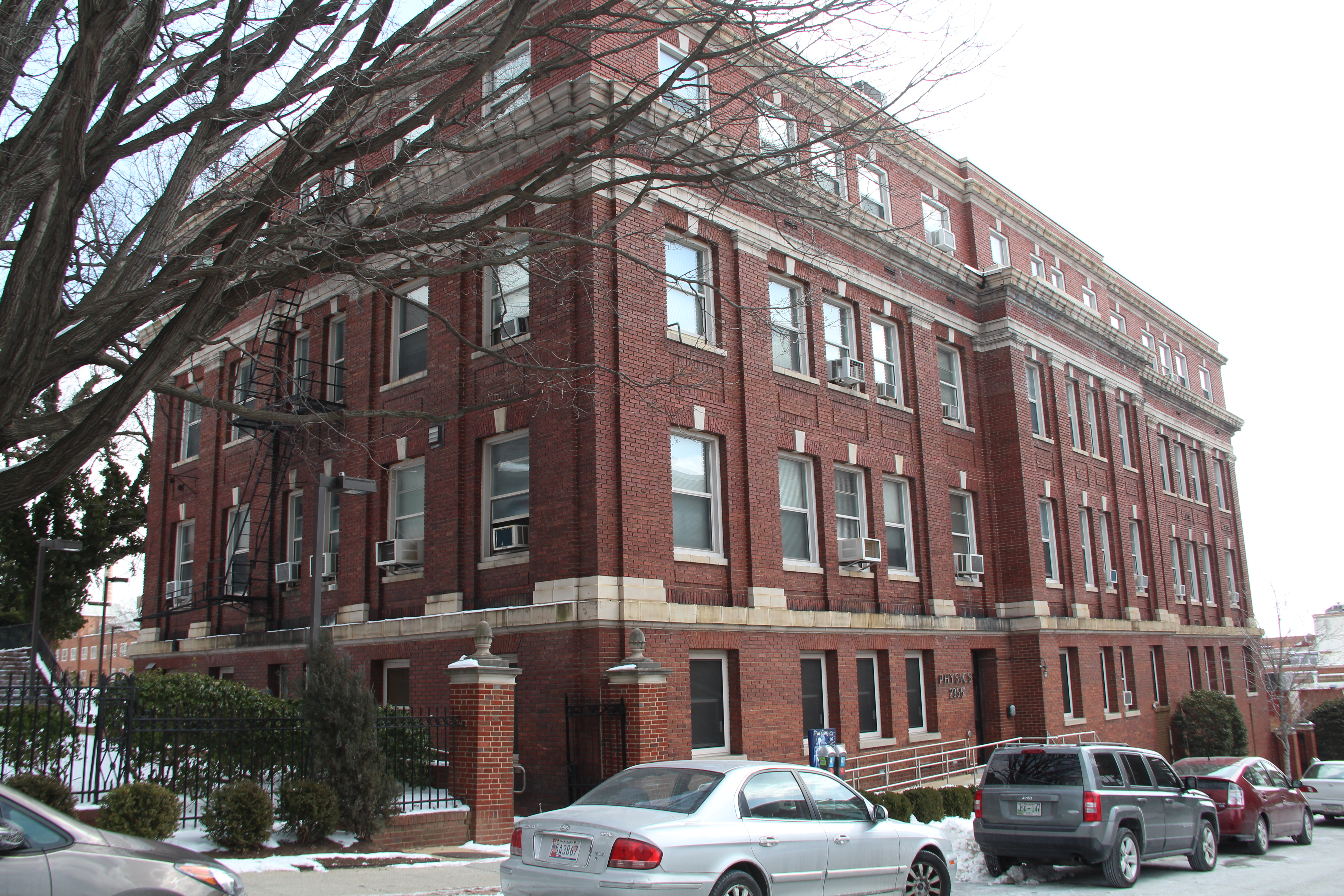 Howard University physics buidling